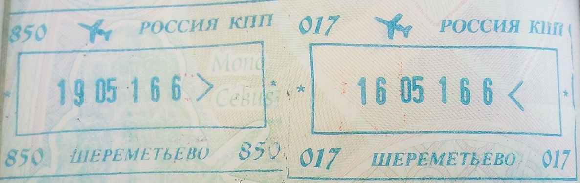 Russian Immigration Stamps (2016)